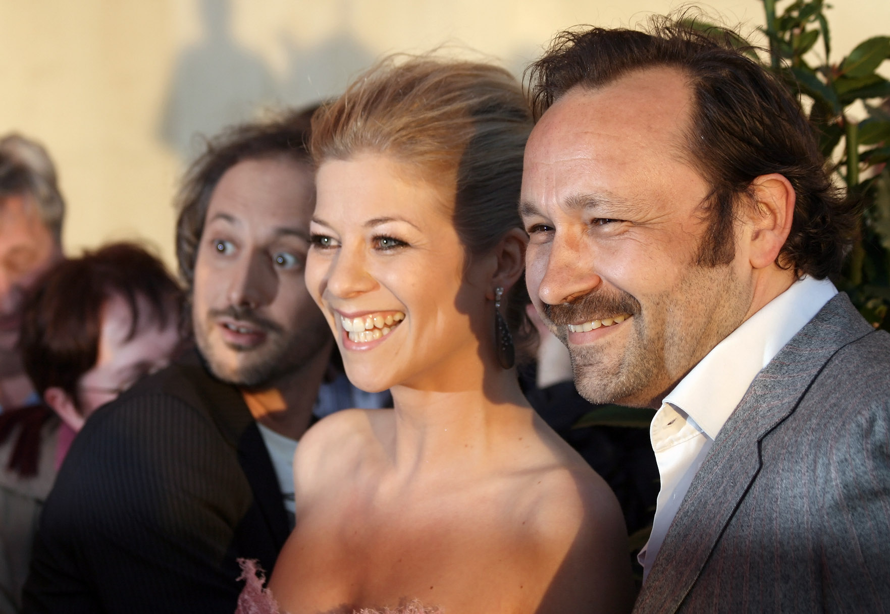 Gerald Votava, Hilde Dalik and Michael Ostrowski at the Romy TV awards (Hofburg Imperial Palace in Vienna)